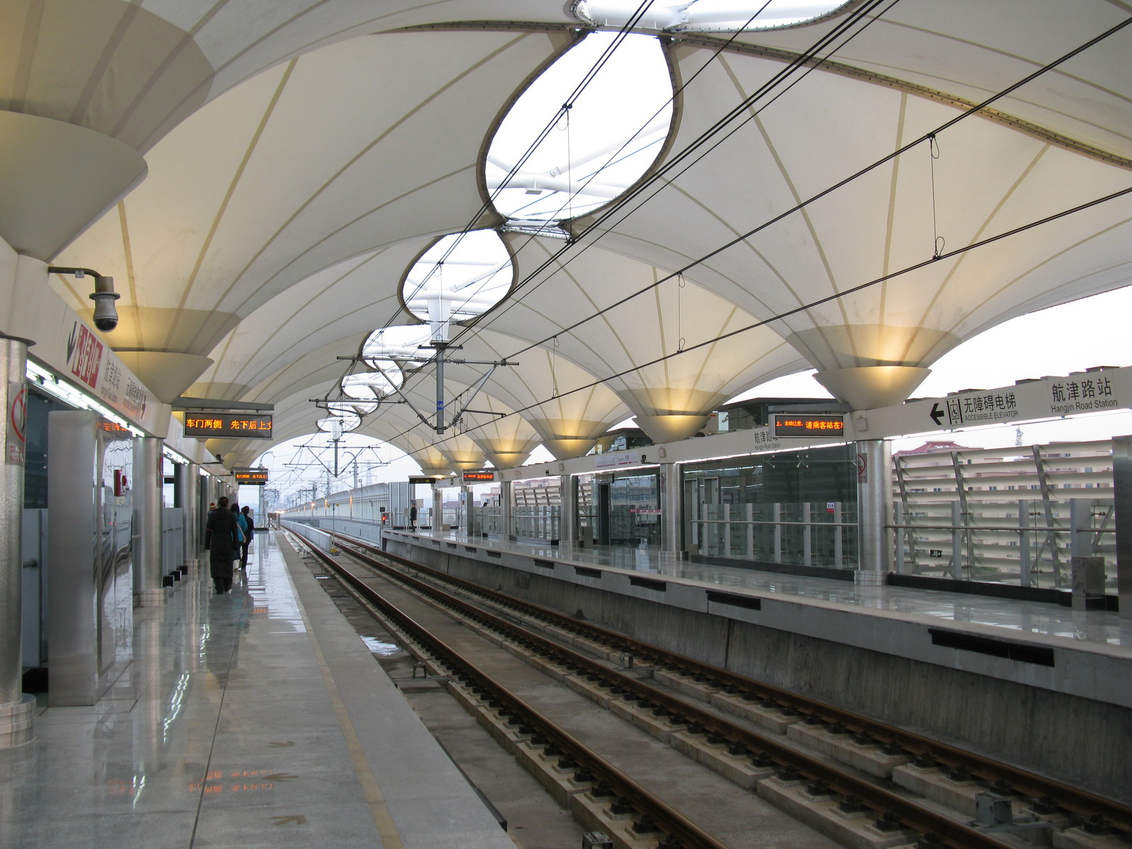 航津路站 6号线月台 Line 6 Platform of Hangjin Road Station